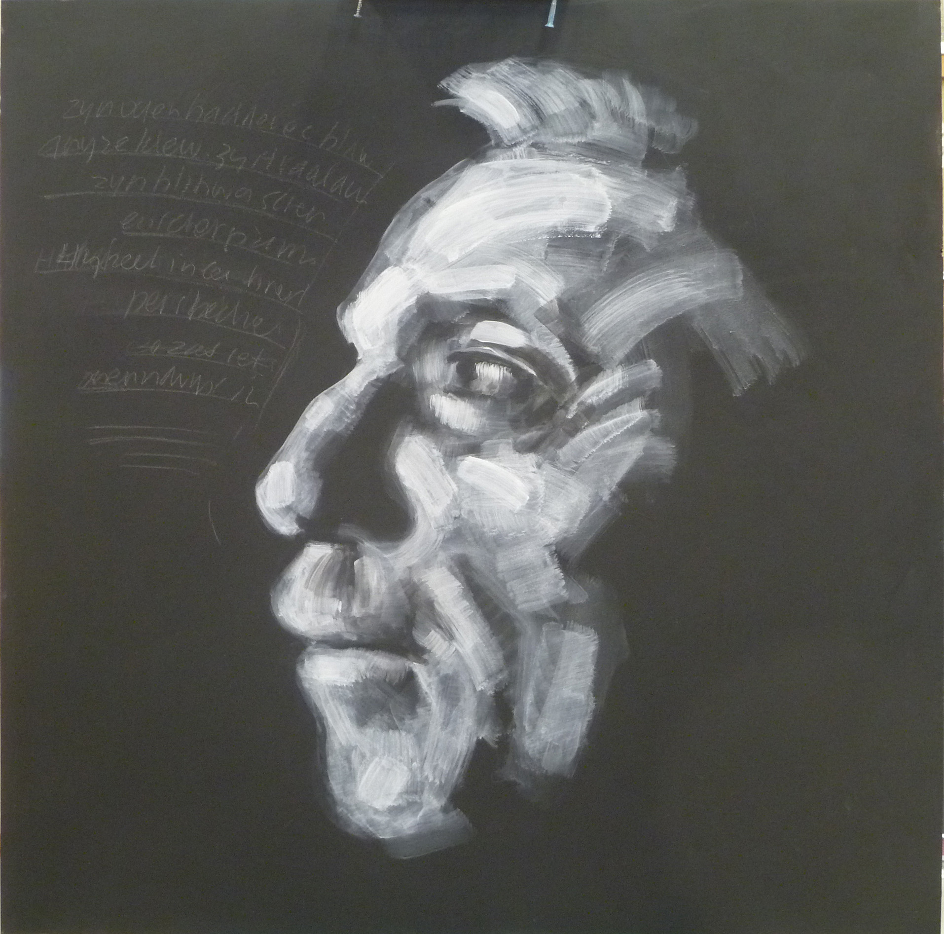 Portrait (in the making) of Léon Spilliaert by the Belgian artist Willy Bosschem